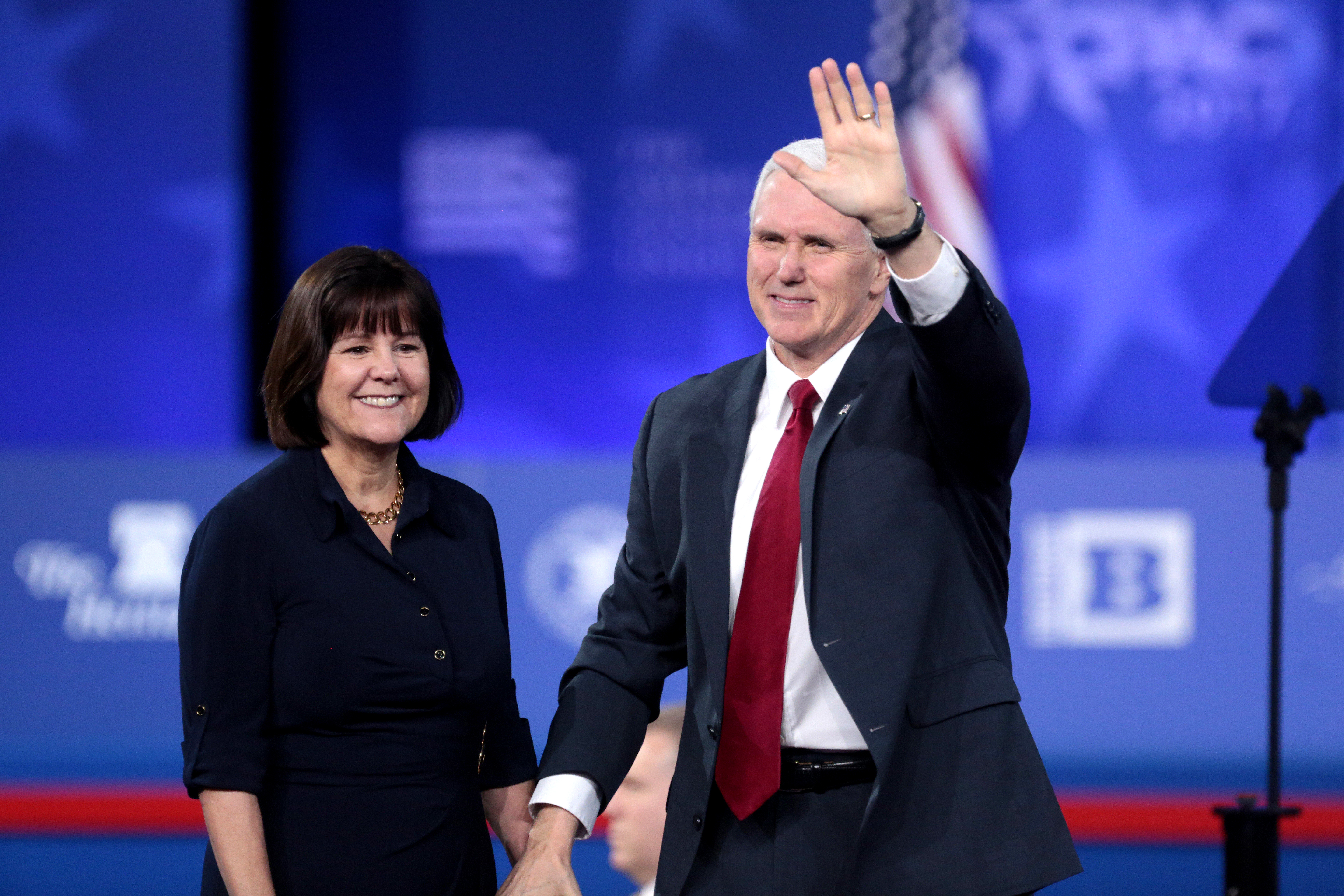 Second Lady Karen Pence and Vice President of the United States Mike Pence speaking at the 2017 Conservative Political Action Conference (CPAC) in National Harbor, Maryland.